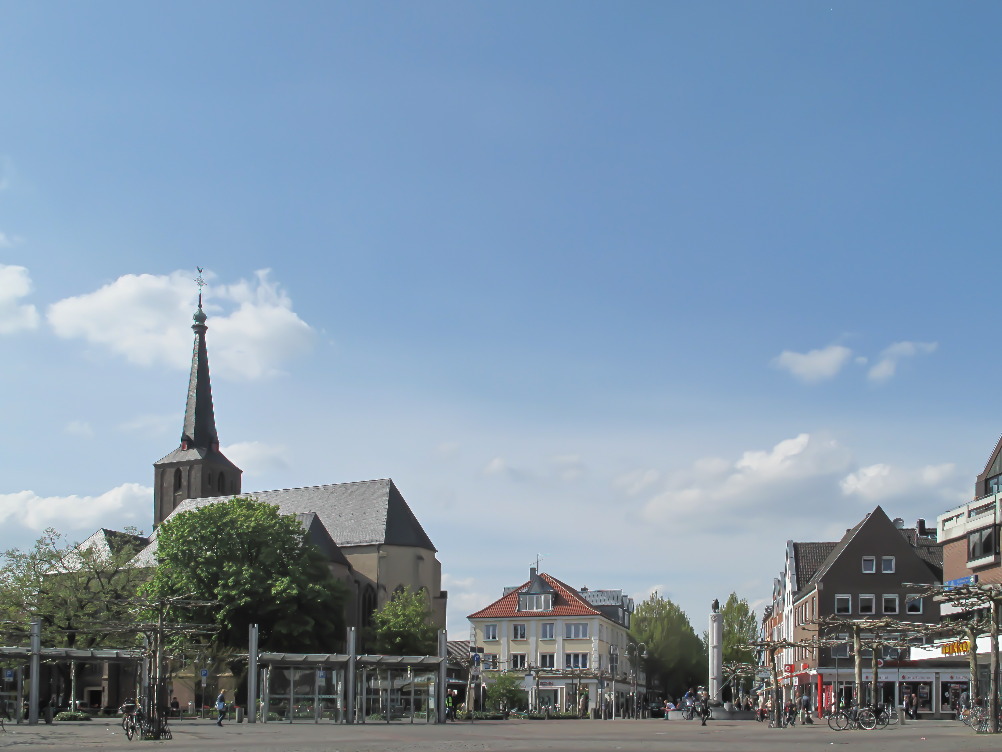 Geldern, church (Sankt Maria Magdalenakirche) on the MarktThis is a photograph of an architectural monument., no. GE 10012